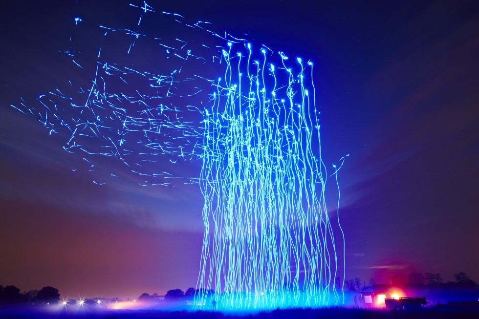 Magiya Fona Light Show